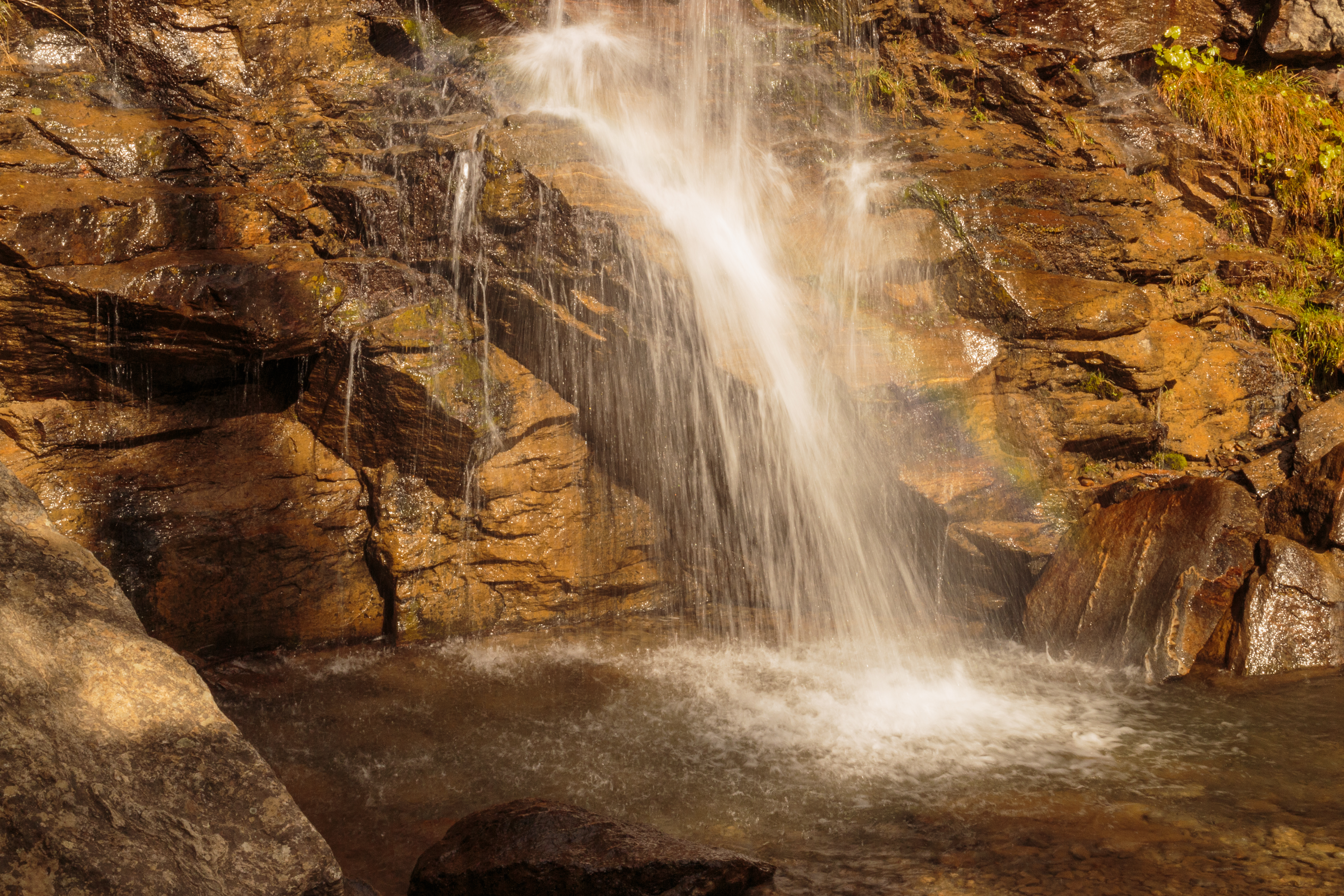 Mountain walk from Pejo to Lago Covel (1,839 m) in the Stelvio National Park (Italy). Waterfall above Lake Covel.